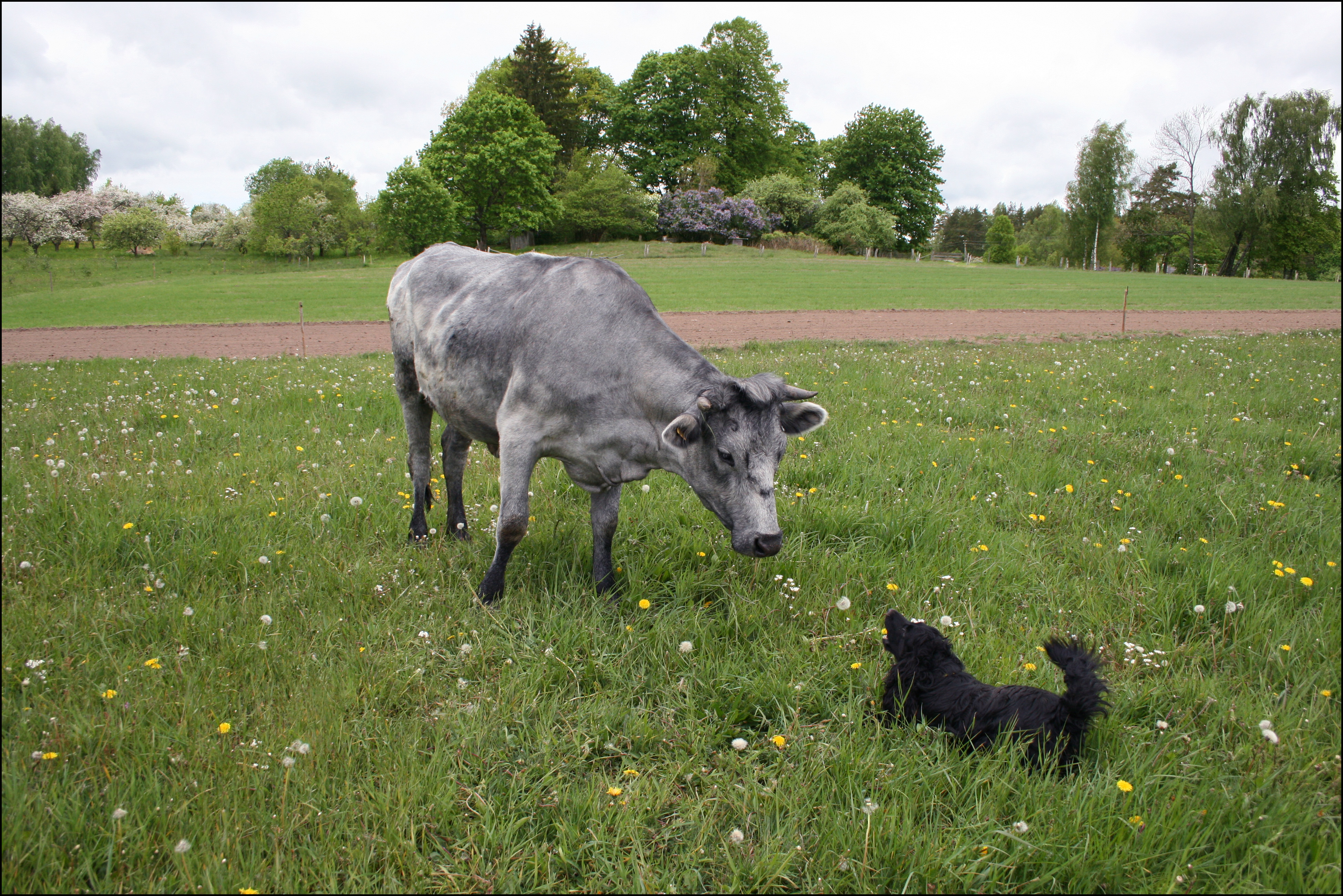 Latvian Blue Cow in Ivande